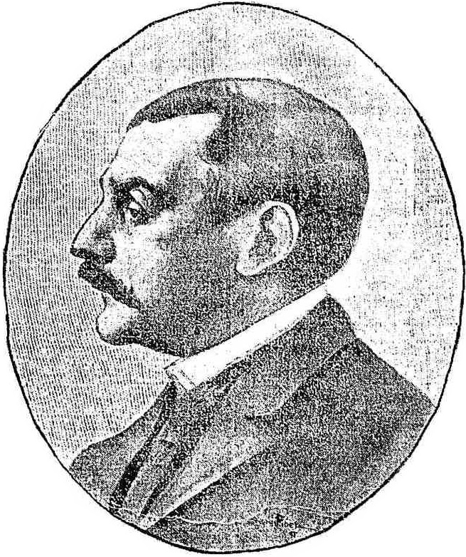 "Baron de Christiani, who struck Loubet. He received a sentence of four years for his attack with a cane on the President of France at Auteuil race track on June 4 last. (From L'Illustration)."